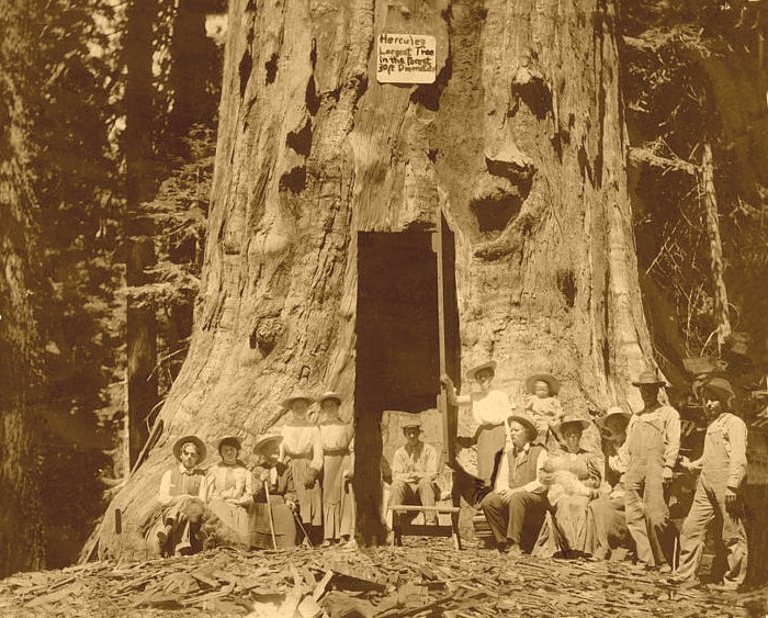 Circa 1902 photo of the Hercules tree in the Mountain Home Grove